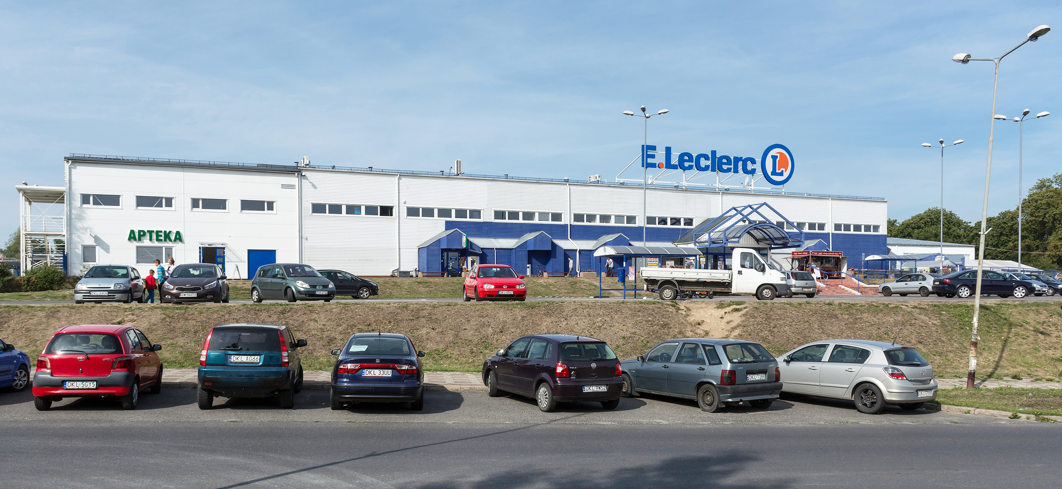 E.Leclerc hypermarket in Kłodzko